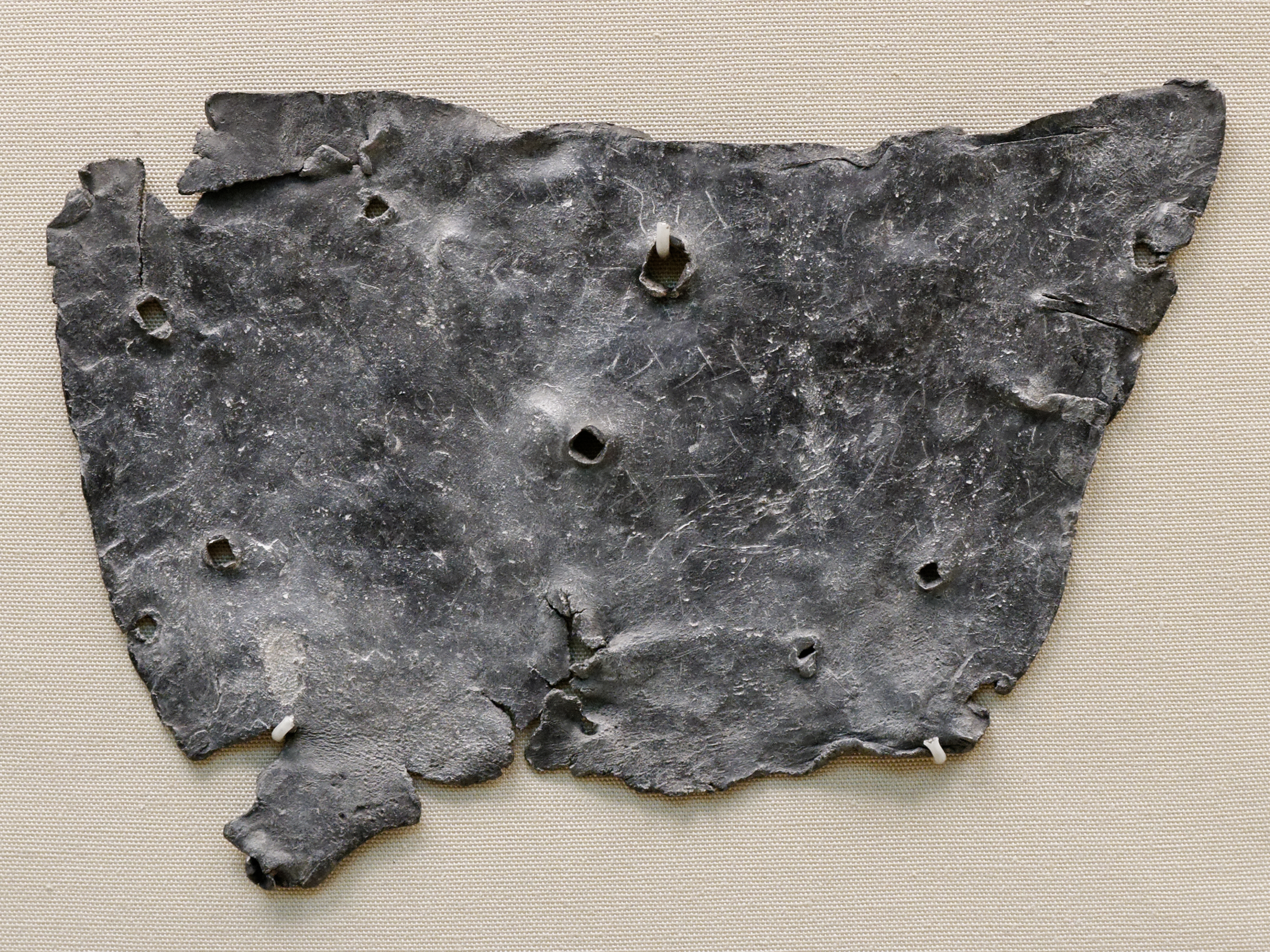 Curse tablet (defixio).